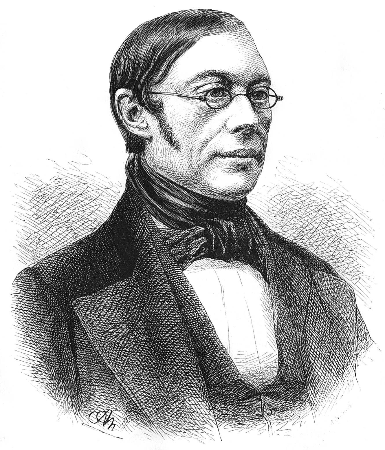 caption: "Franz Ahn.Originalzeichnung von Adolf Neumann."